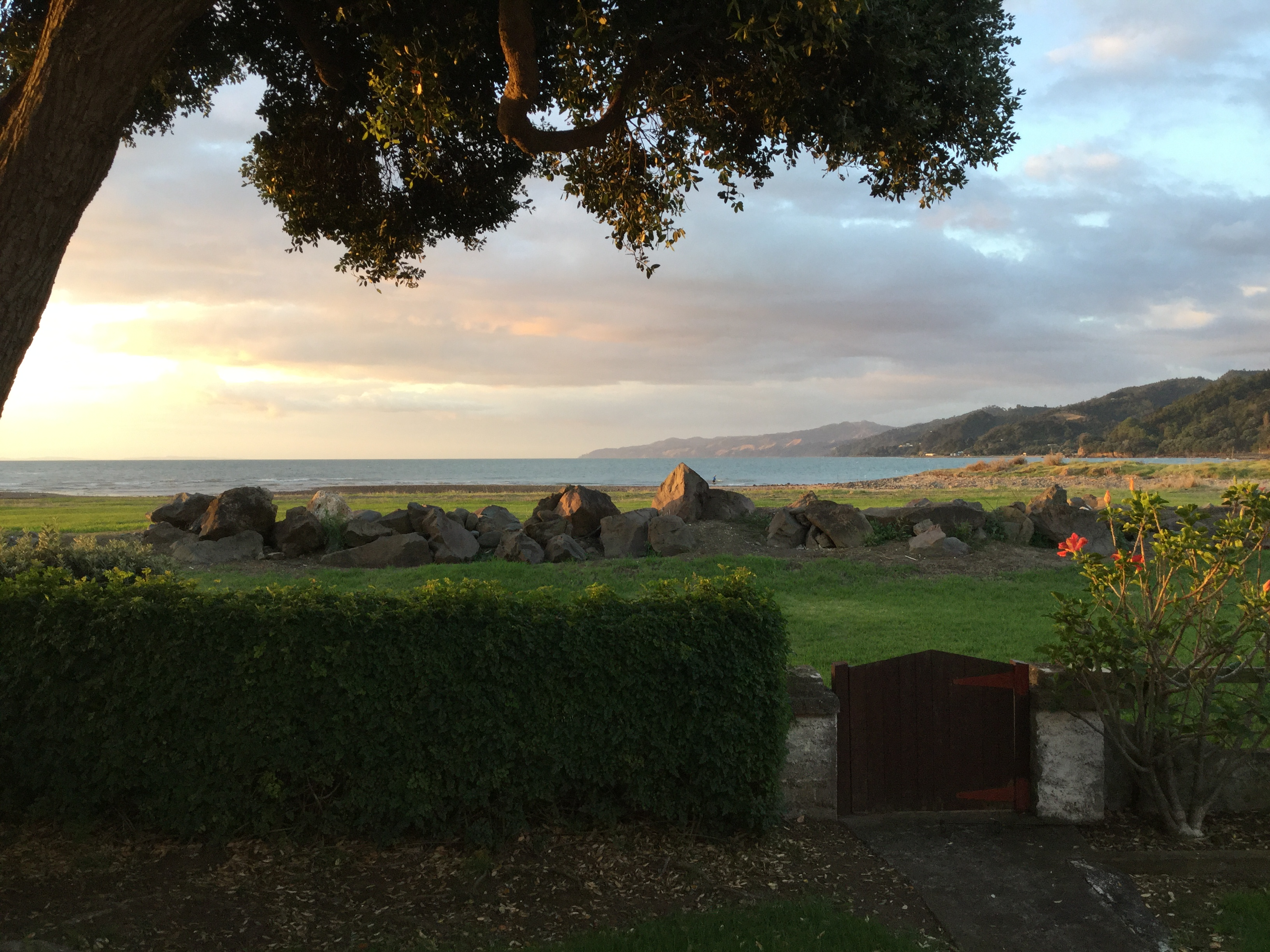 View from a bach at Te Puru, Coromandel coast, New Zealand